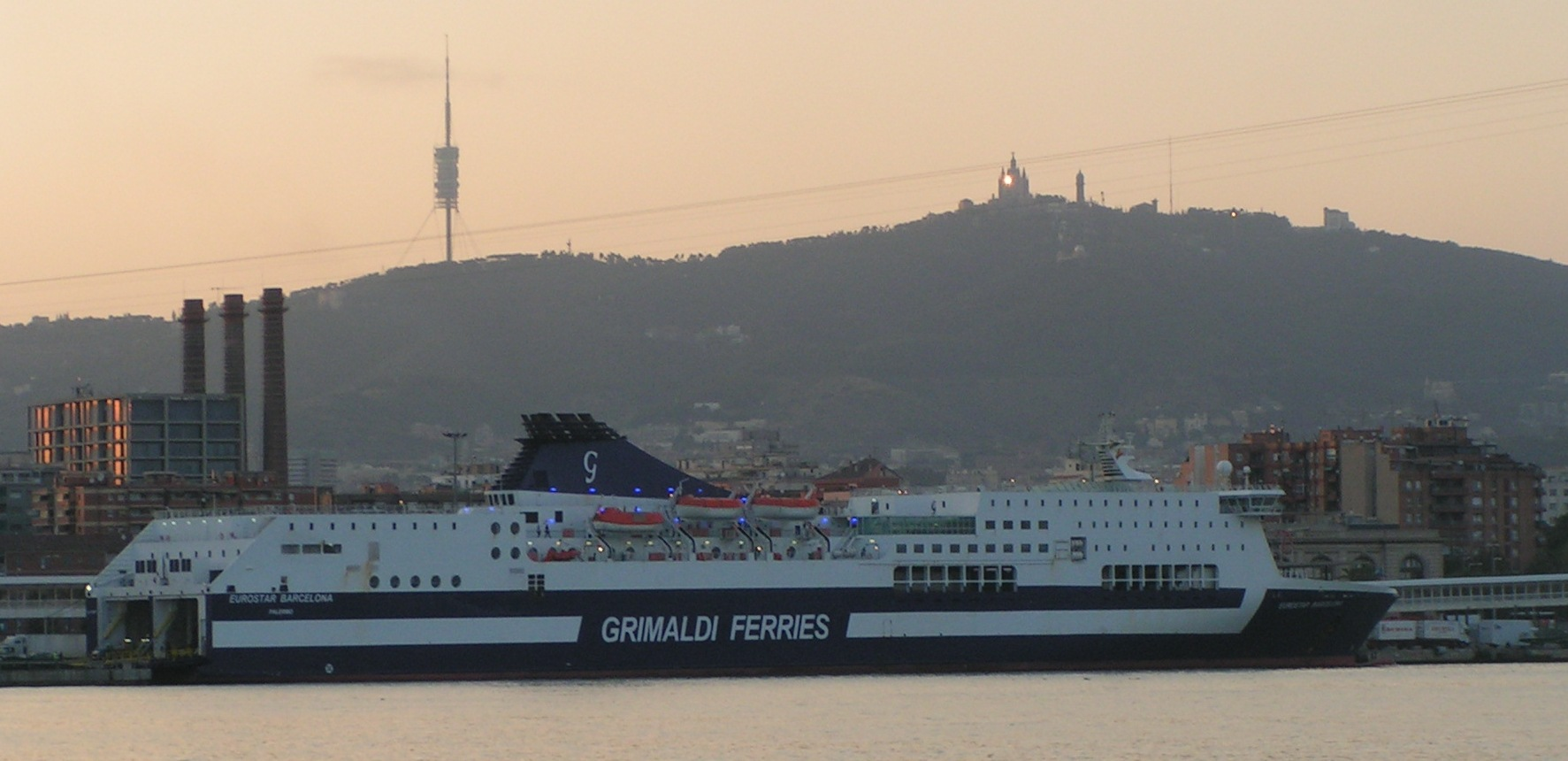 Barcelona harbour. Ferry to Civitavecchia (Italy)